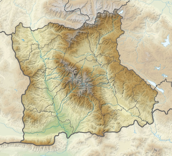 Relief location map Blagoevgrad Province, Bulgaria. Geographic limits of the map